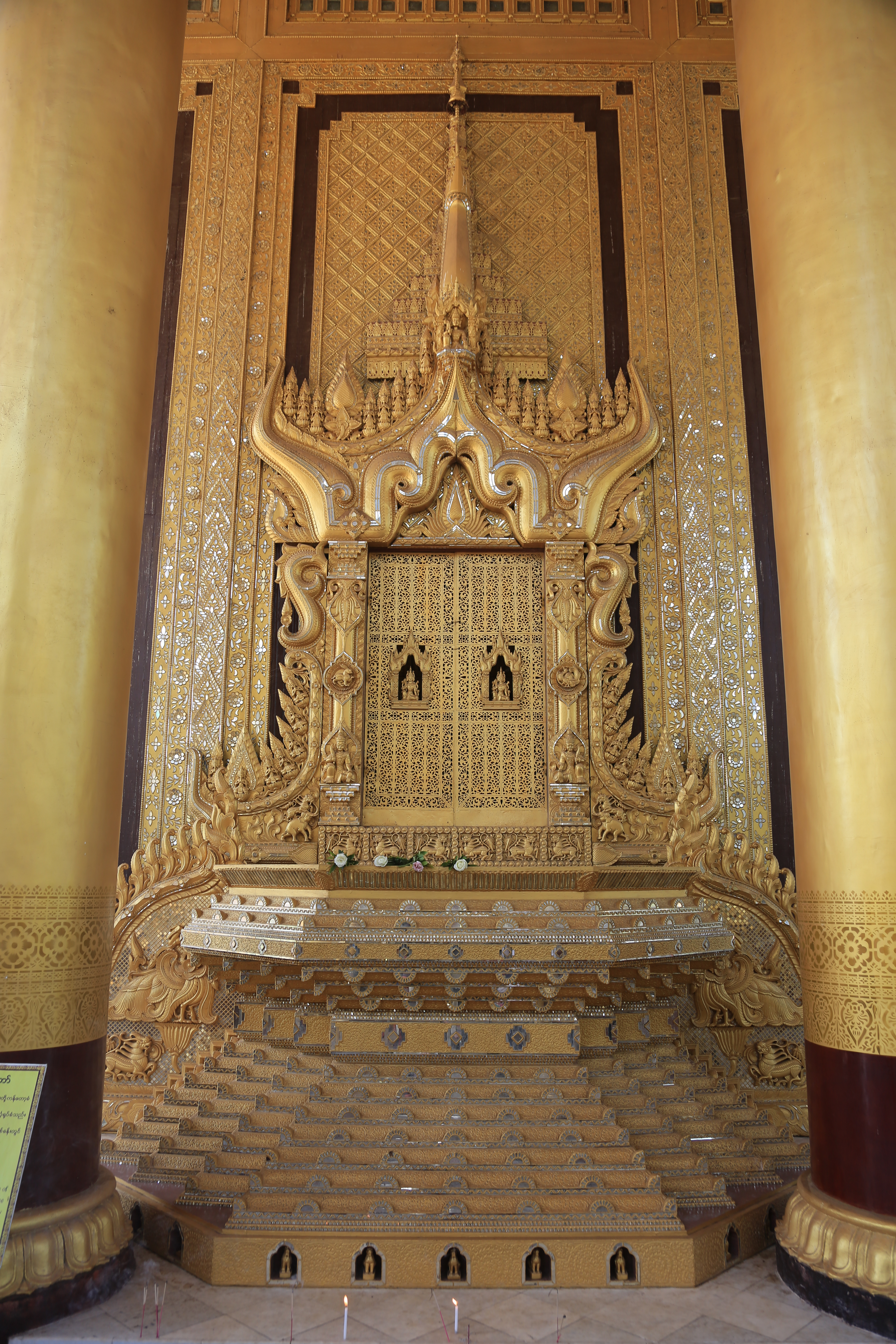 Kanbawzathadi Palace in Bago, Myanmar. Throne.